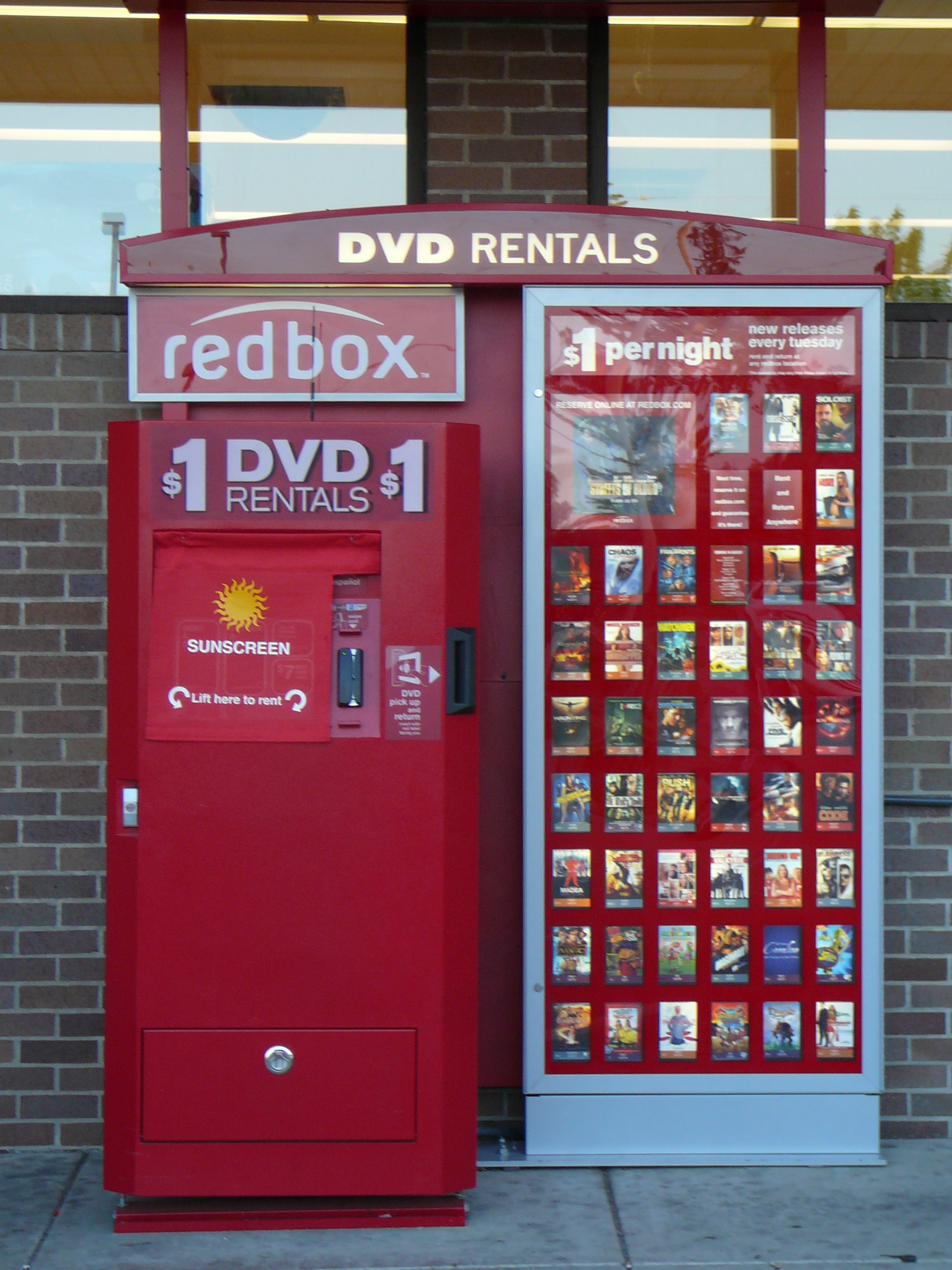 a RedBox video rental kiosk located on the east facing external wall of a Walgreens in Macomb, Illinois 61455 taken while facing west bound